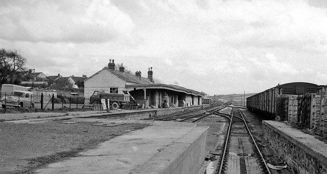 Barnstaple (Victoria Road) Station View eastward, towards Taunton, from buffer-stops of disused terminus of former GWR line from Taunton, which also connected with the SR line at Barnstaple Junction until the line was closed entirely on 3/10/66. Meanwhile this station had been closed to passengers on 13/6/60 but to Goods (from Barnstaple Junction) not until 5/3/70.